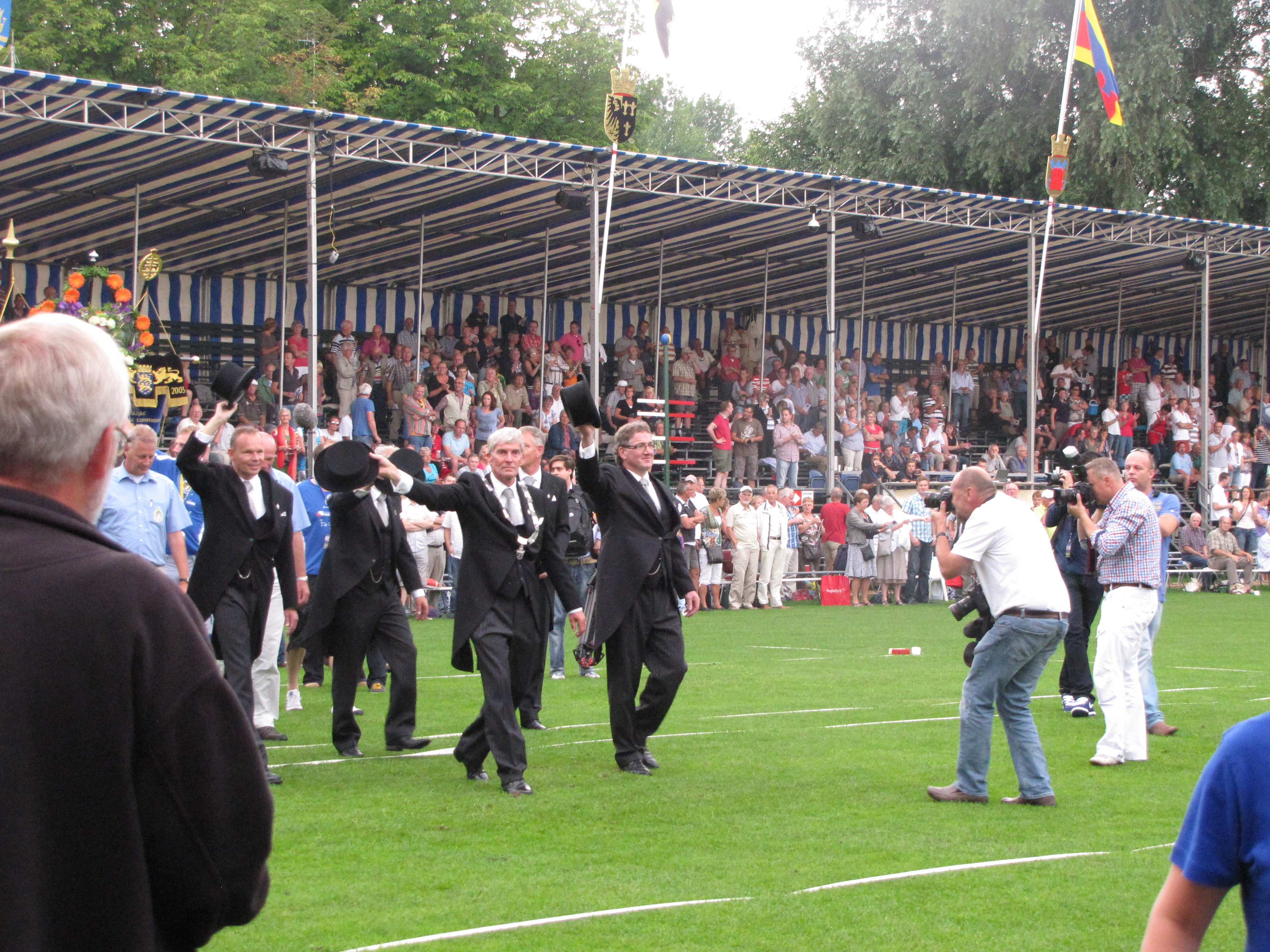 The Arrival of the Permanent Committee on the PC of 2011Frysk: De kommisje komt it fjild op mei de PC fan 2011